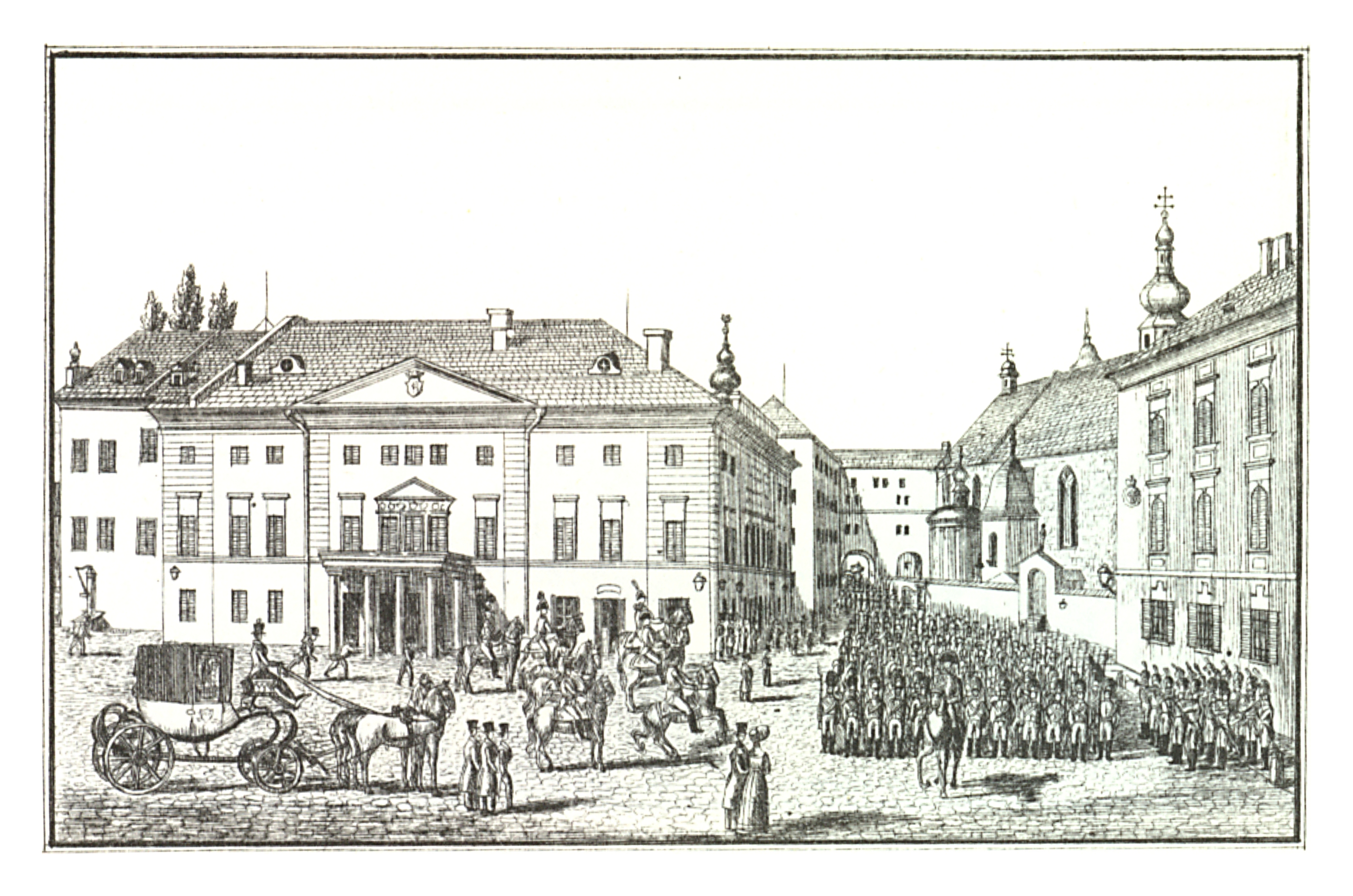 J. F. Kaiser - lithographirte Ansichten der Steyermärkischen Städte, Märkte und Schlösser, Graz 1824-1833. Die Originalbeschreibung lautet: "Das Burgthor / mit dem Dome das Ständische Theater und das Universitäts Gebäude", tatsächlich zeigt es den dreigeschoßigen Verbindungsbau, der den Friedrichsbau mit dem Dom verband. Das Burgtor selbst ist nicht sichtbar, es befindet sich links davon. Joseph Franz Kaiser (1786–1859) Alternative names J. F. KaiserDescriptionAustrian printer and editorDate of birth/death 11 March 1786 19 September 1859Location of birth/death Graz (Styria) GrazAuthority control : Q1499963 VIAF: 30629353 ISNI: 0000 0000 3083 0153 LCCN: n87141671 GND: 129880159 NLP: A24960305 WorldCat creator QS:P170,Q1499963 . Scanprojekt Community Projektbudget 2012 This scan or this PDF-file was created within the GLAM-project Bookscanning, supported by Wikimedia Germany and Wikimedia Austria as a part of the community-project to capture books, documents and pictures which are not eligible to copyright or for which the copyright has expired. This document describes or depicts an object which is located in Austria today. Send requests for uncompressed scans to Hubertl. This work is in the public domain in its country of origin and other countries and areas where the copyright term is the author's life plus 100 years or less. You must also include a United States public domain tag to indicate why this work is in the public domain in the United States. This file has been identified as being free of known restrictions under copyright law, including all related and neighboring rights.